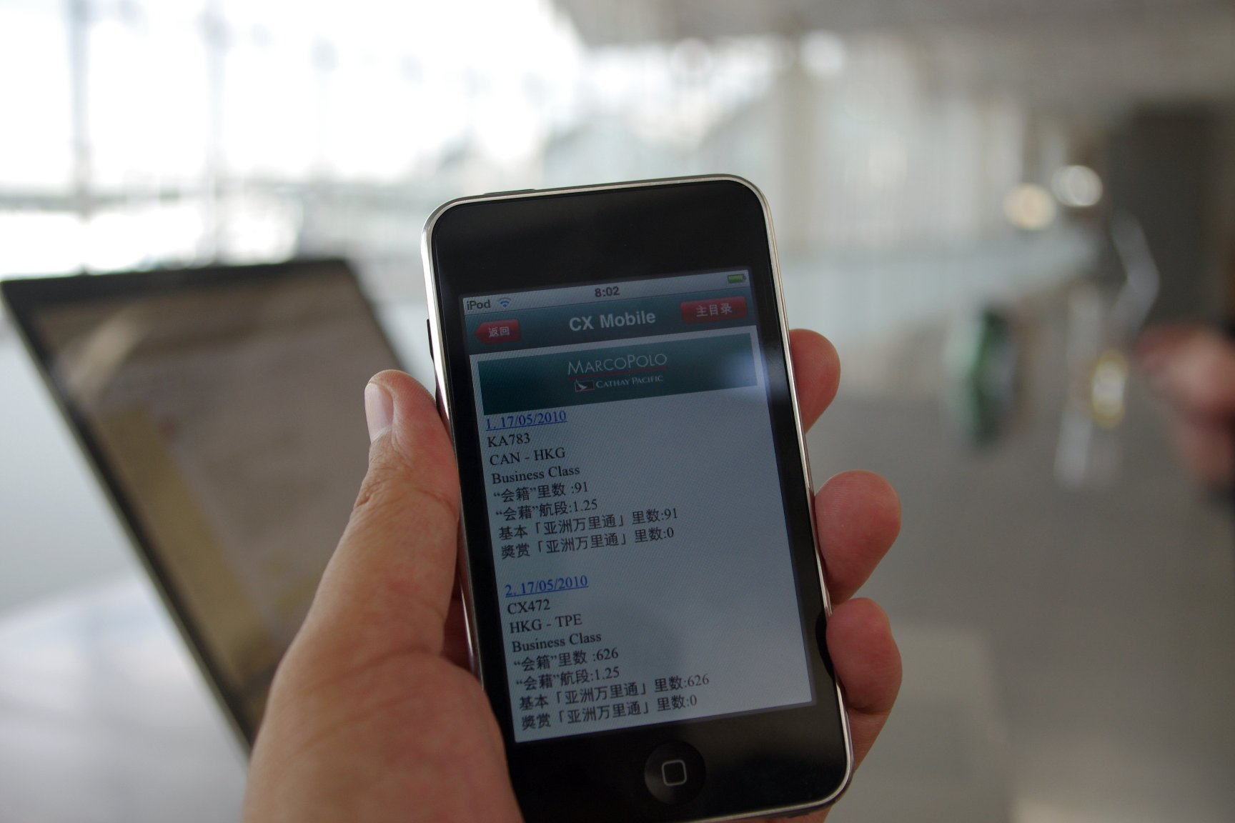 HKG Cathay Pacific Business Class Lounge - The Wing